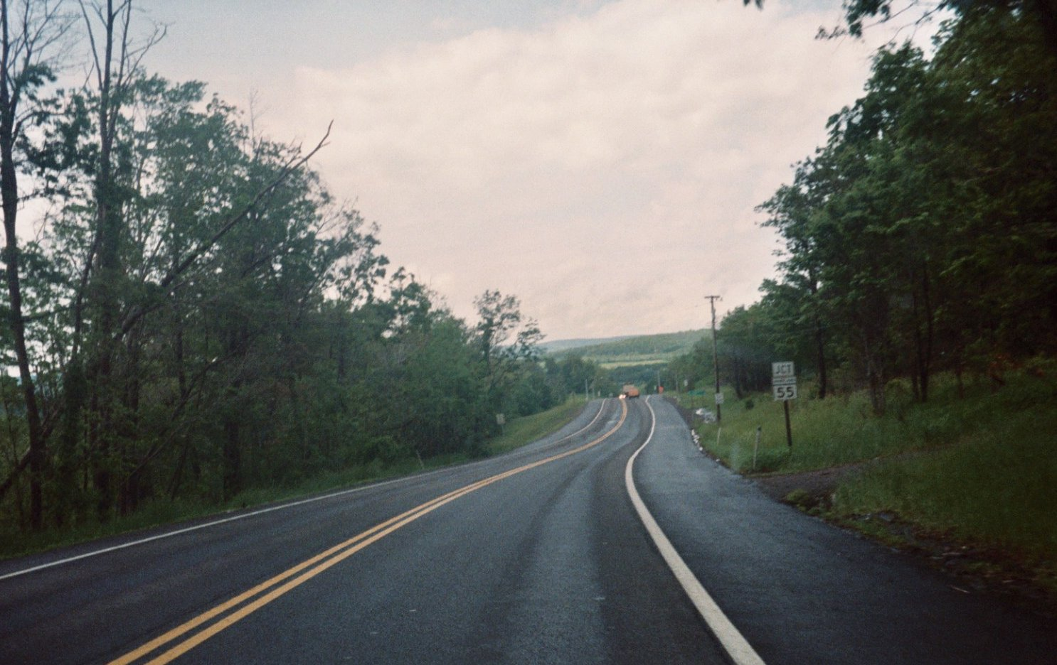 Maryland Route 36 approaching the intersection with Maryland Route 55 from the south, south of Frostburg, Maryland